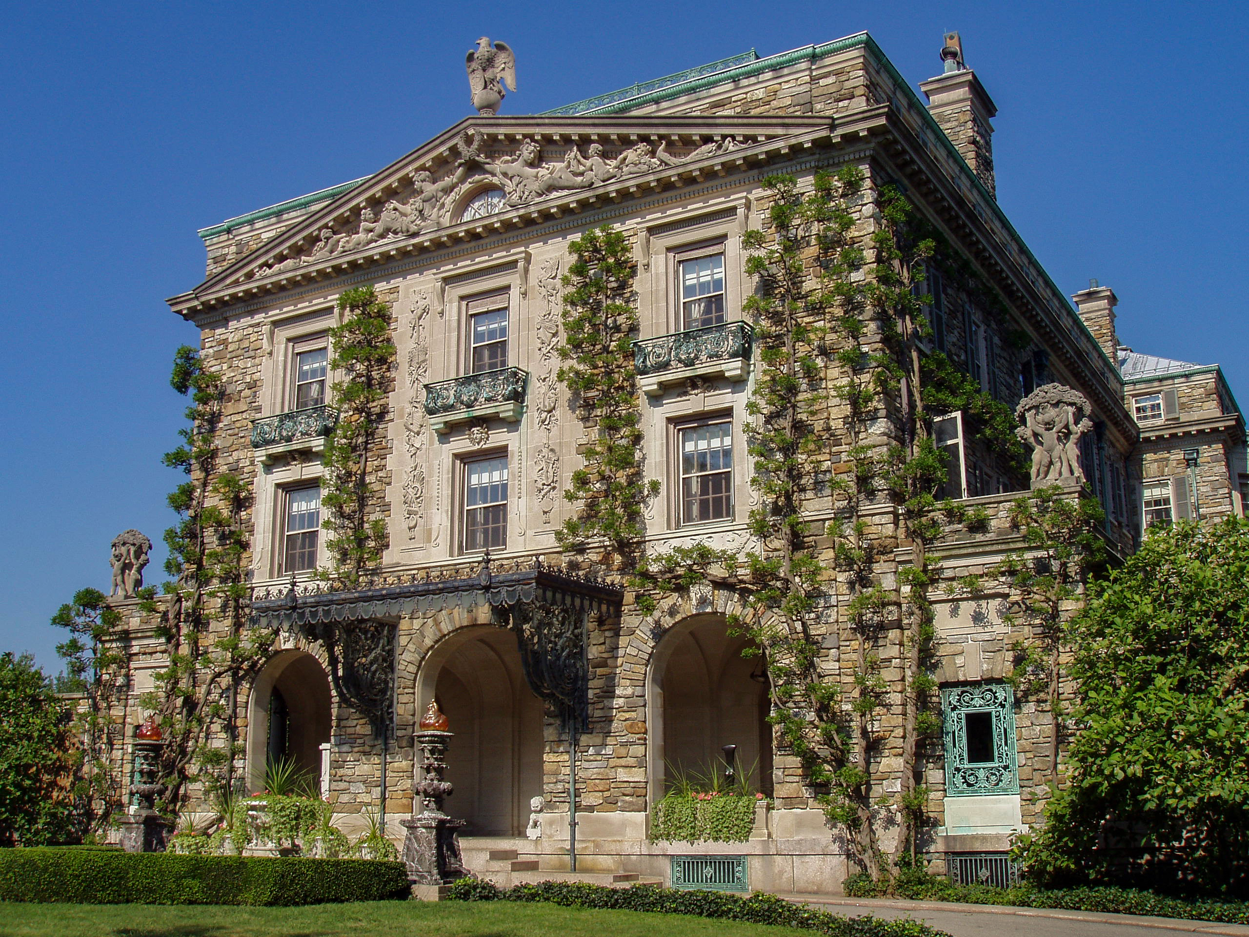 Garden and front facade of Kykuit — in Tarrytown, New York. Photograph taken by me, September 2005.